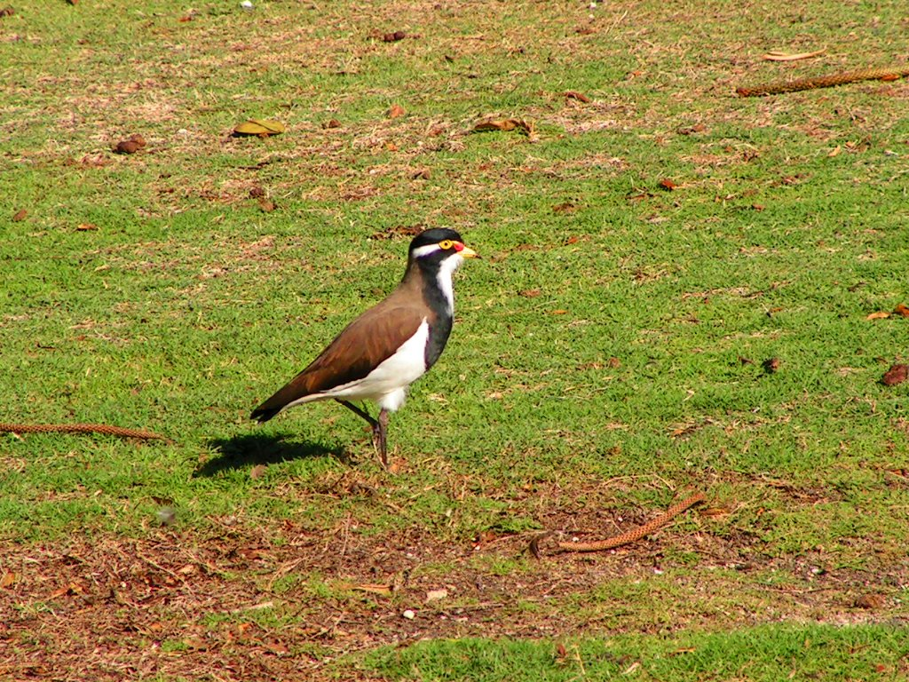 Banded Lapwing (Vanellus tricolor), Rottnest Island, Western Australia